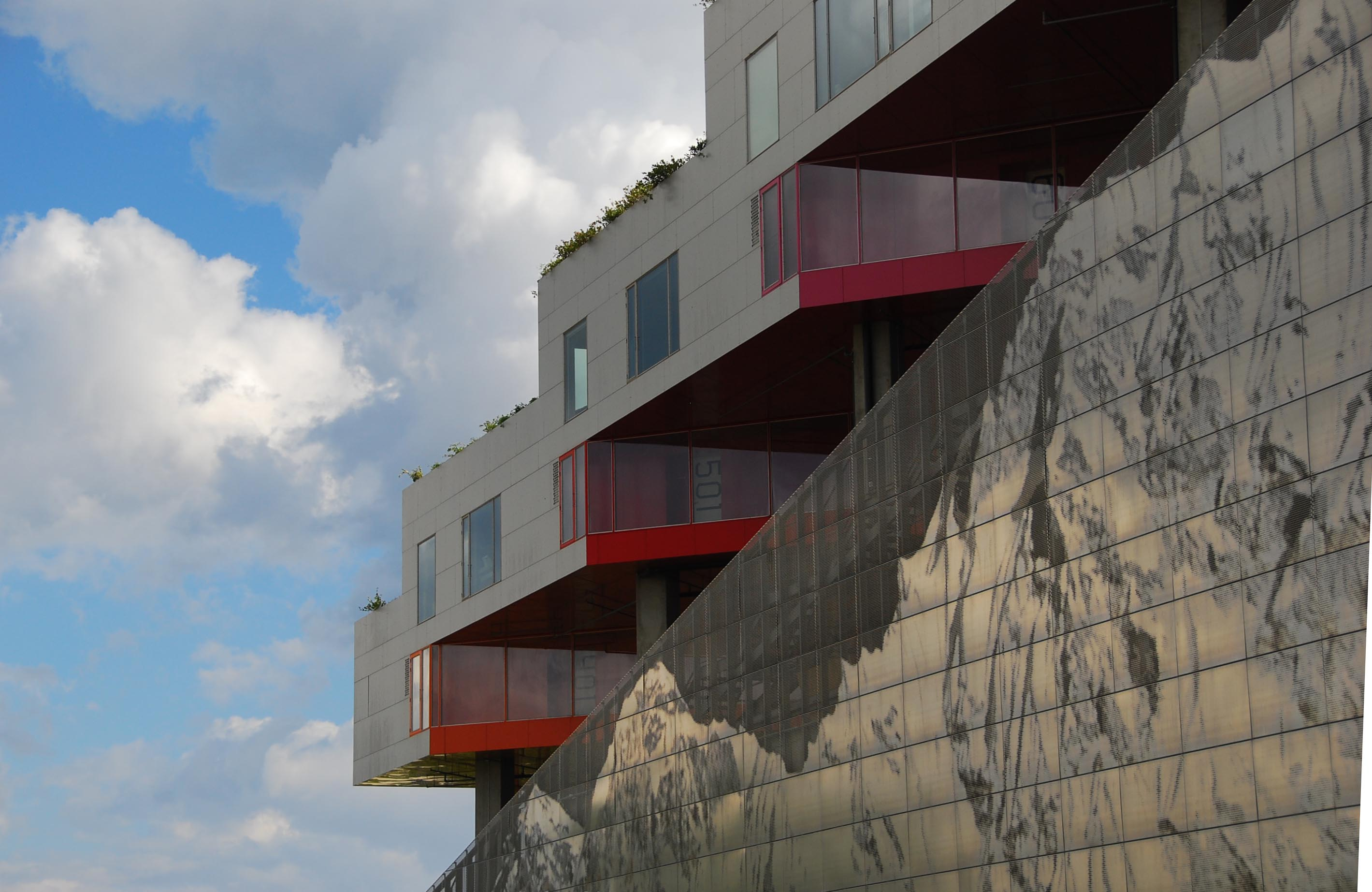 Architect:Mountain Dwellings by Bjarke Ingels Group (PLOT) in Ørestad, Copenhagen, Denmark